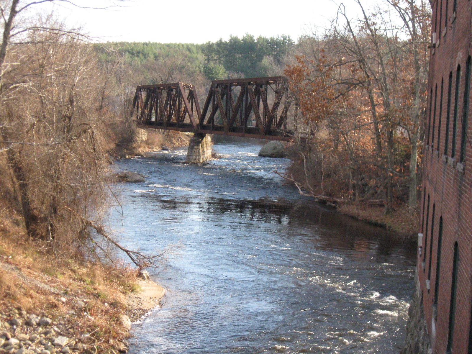 The Souhegan River in Wilton, New Hampshire, at its confluence with Stony Brook. Photo by Ken Gallager, November 26, 2011.